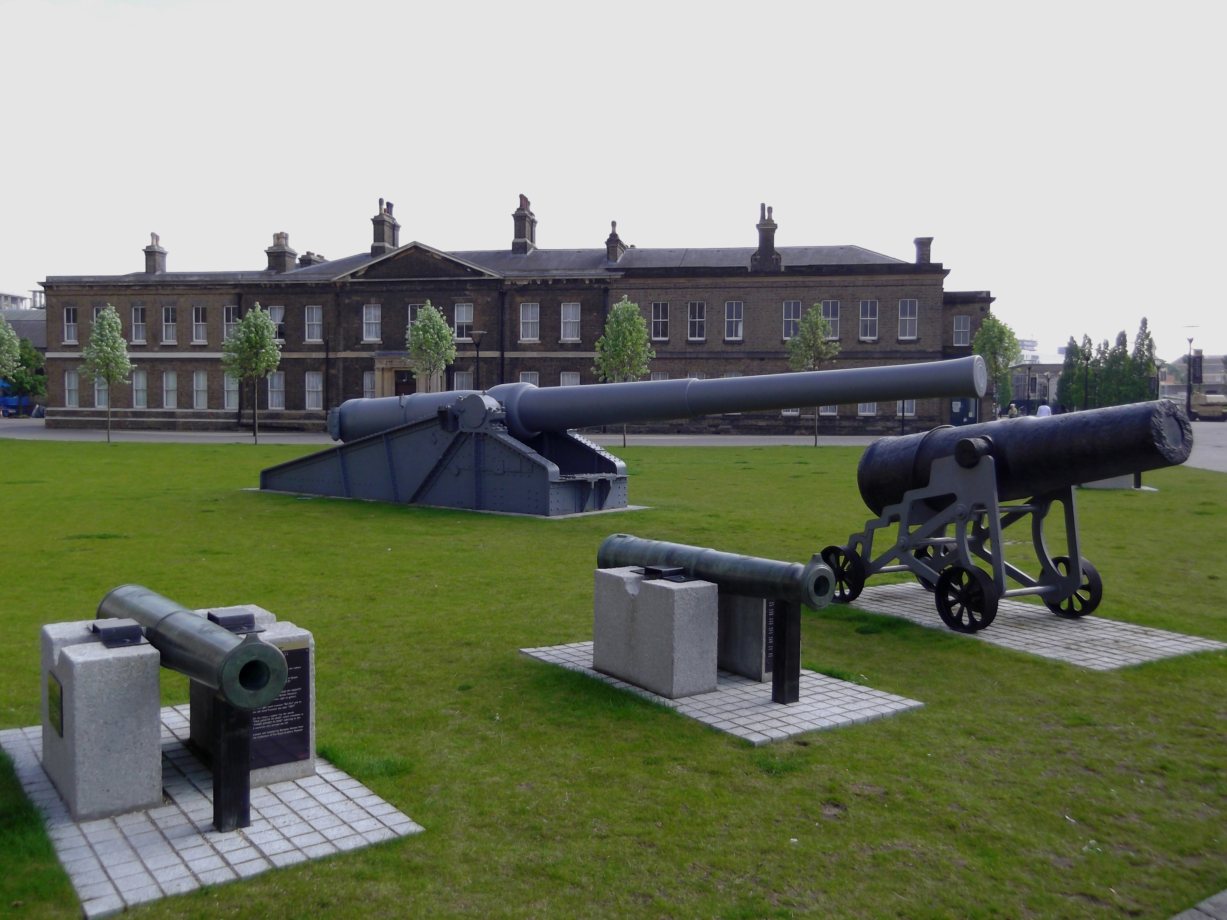 BL 9.2 inch Mk IX coast defence gun at Royal Artillery Museum Woolwich London.